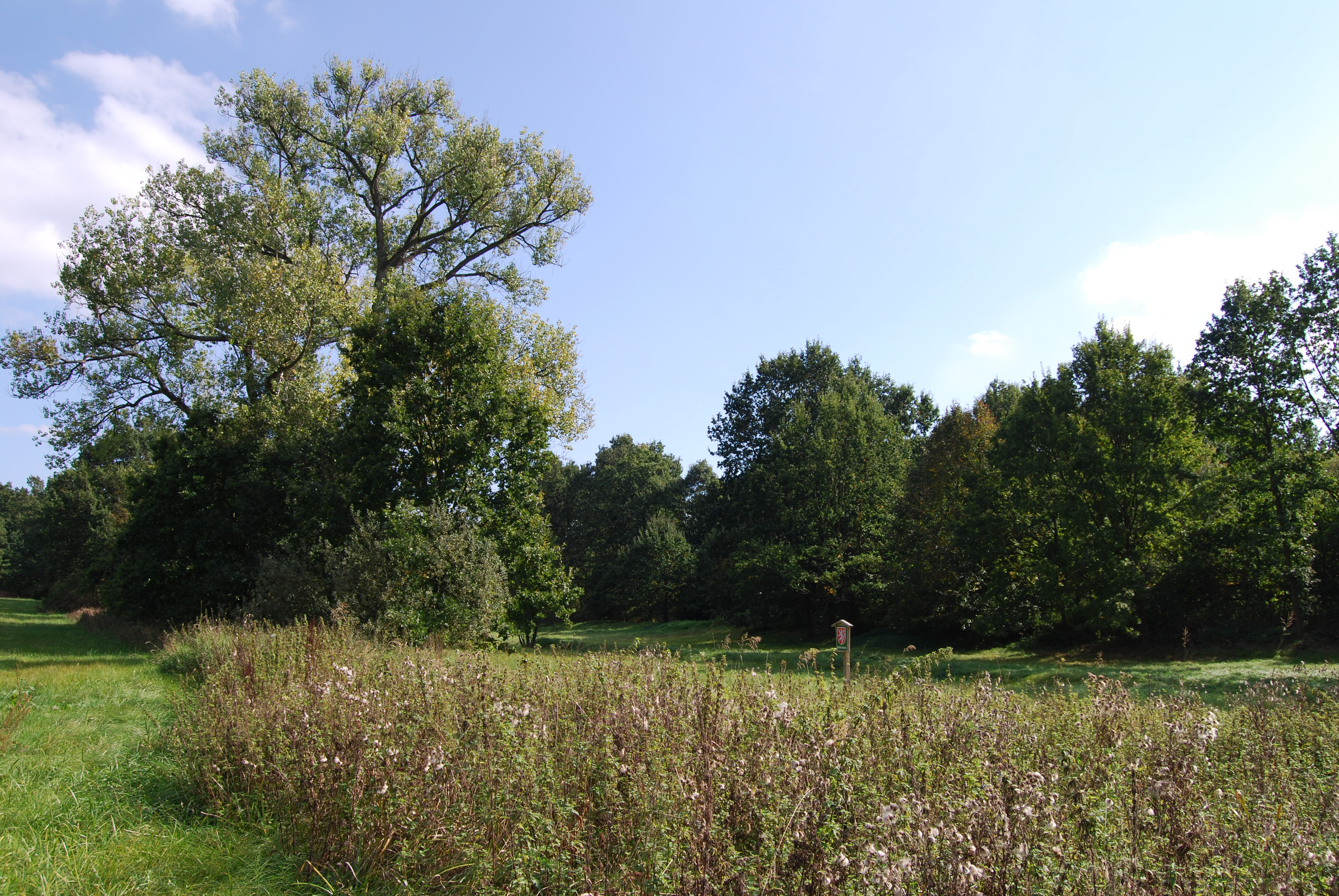 Natural monument Kopáčovská near Čimelice.